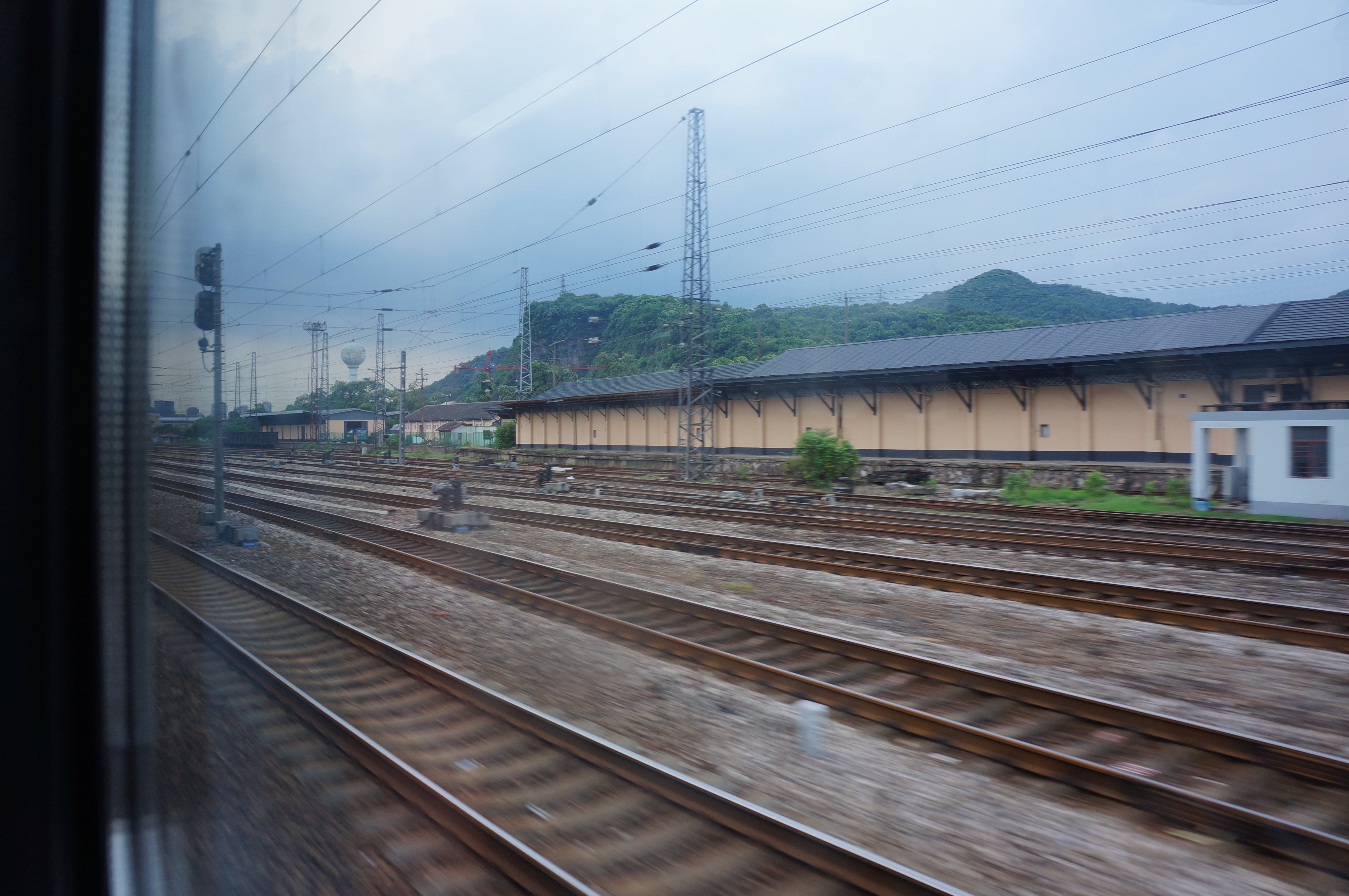 201608 T7785 passes Nanxingqiao Station, while announcement reminded the crew to lock the door of toilet because it would pass Qiantang River Bridge soon. Mantoushan is behind the depot